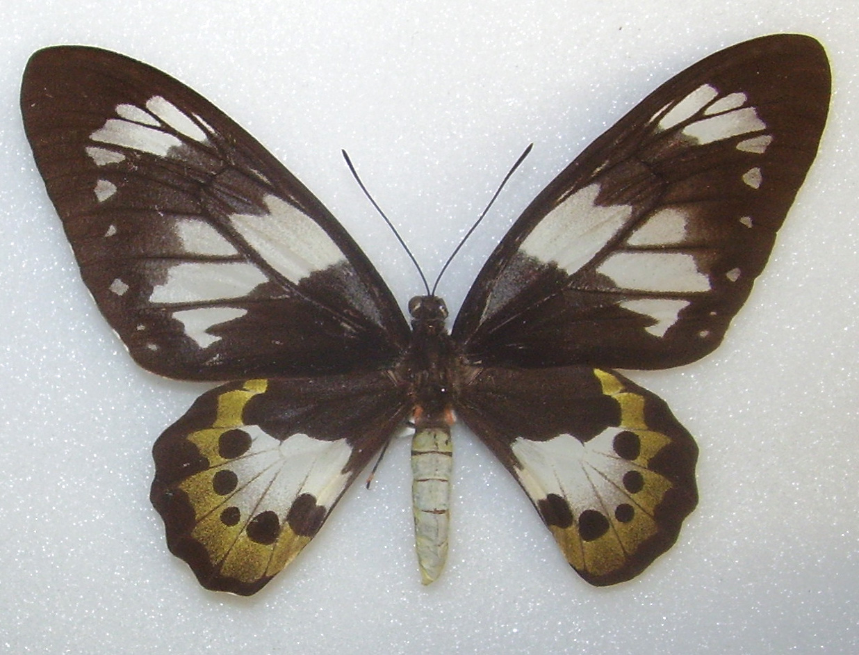 Ornithoptera meridionalis Female, upperside. South Papua March 1969